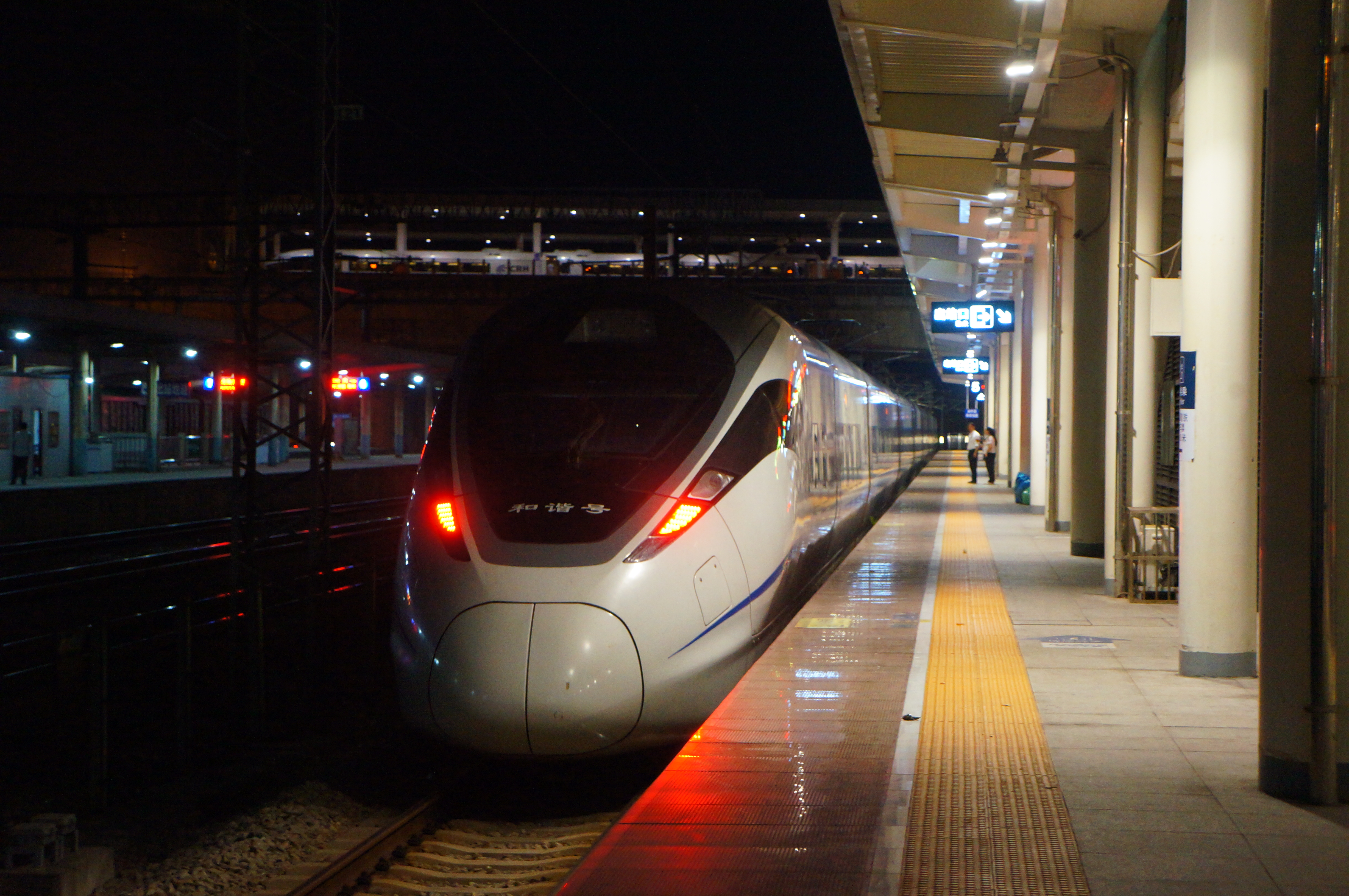 201705 G1364 departs from Shangrao Station